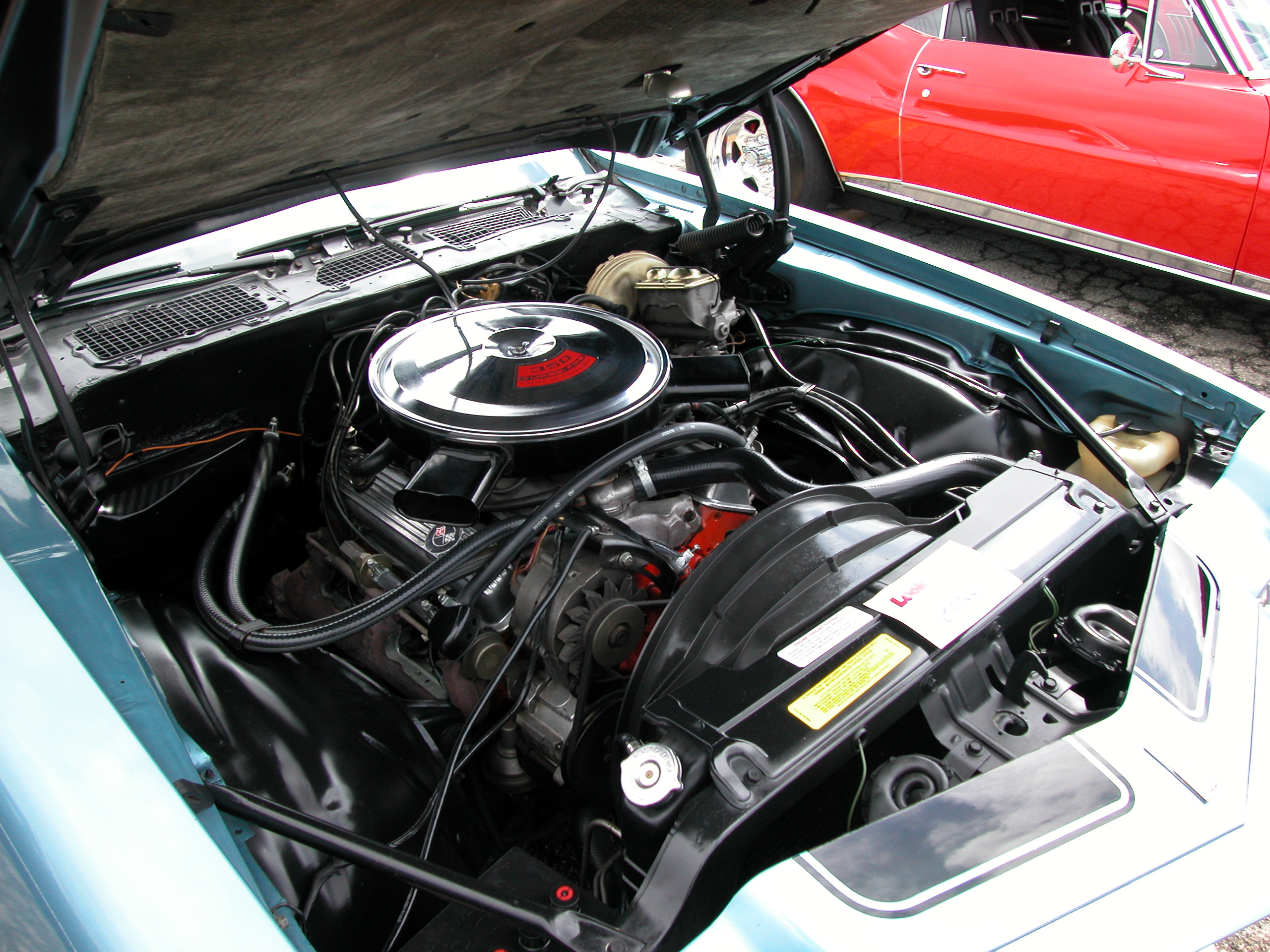 350 cubic in V8 engine from GM. This is from a 1970 Chevrolet Camaro Z28 RS. Camera used was a Nikon Coolpix 5000.